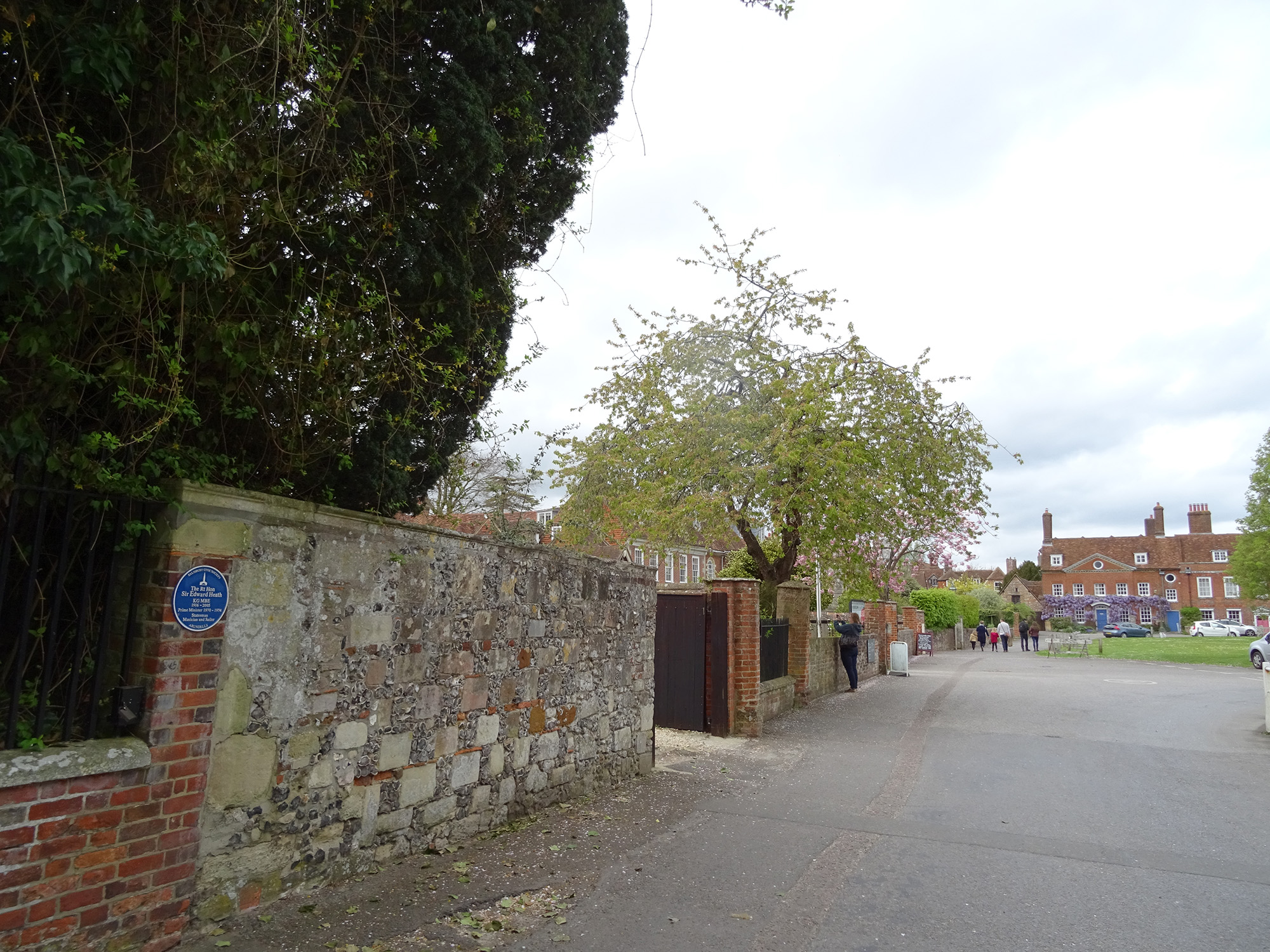 Blue plaque located on the boundary wall of Arundells, 59 Cathedral Close, Salisbury, Wiltshire SP1 2EN "The Rt Hon Sir Edward Heath KG MBE 1916-2005 Prime Minister 1970-1974 Statesmen Musician and Sailor Arundells"